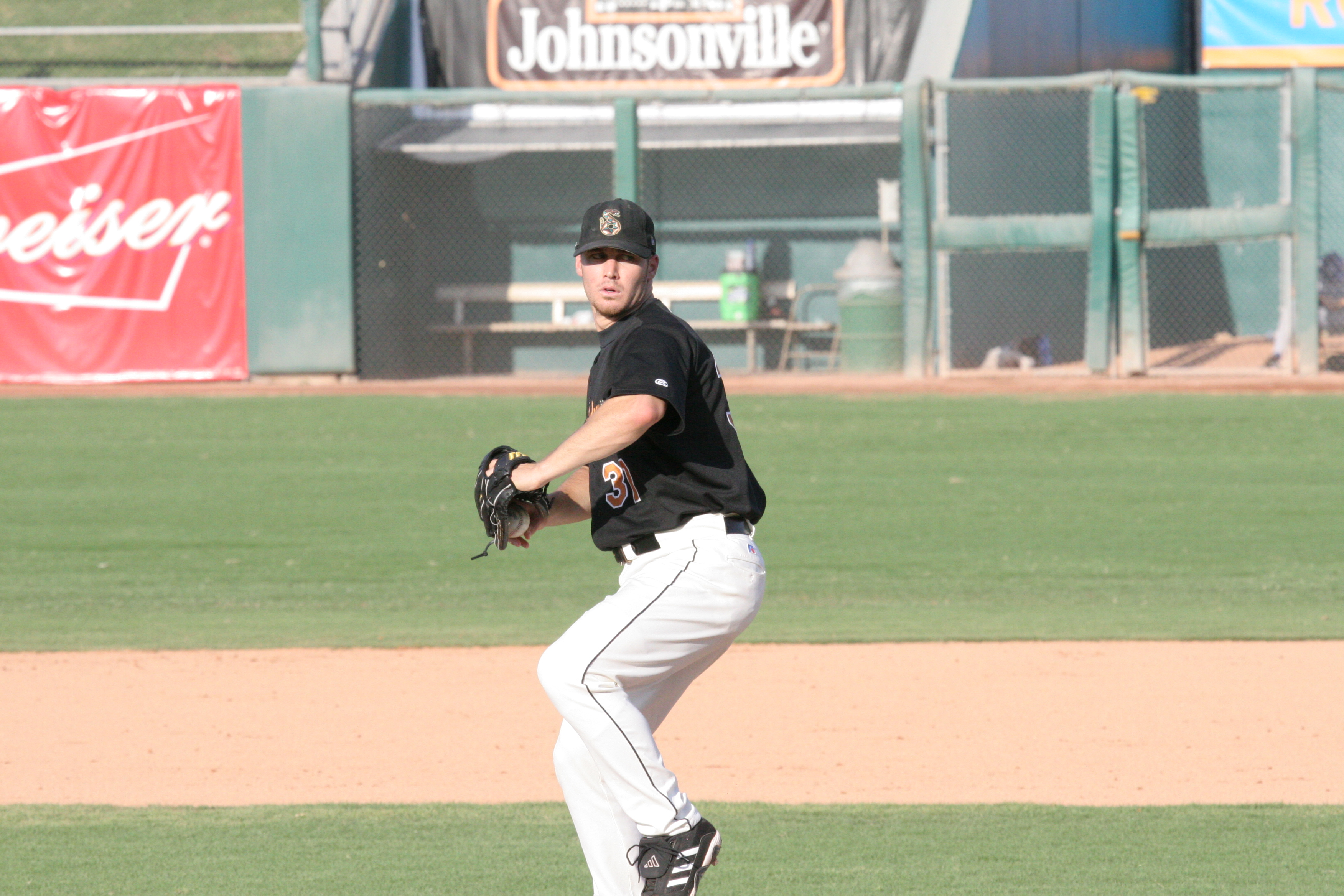 Jeff Bajenaru with the Tucson Sidewinders in 2006.